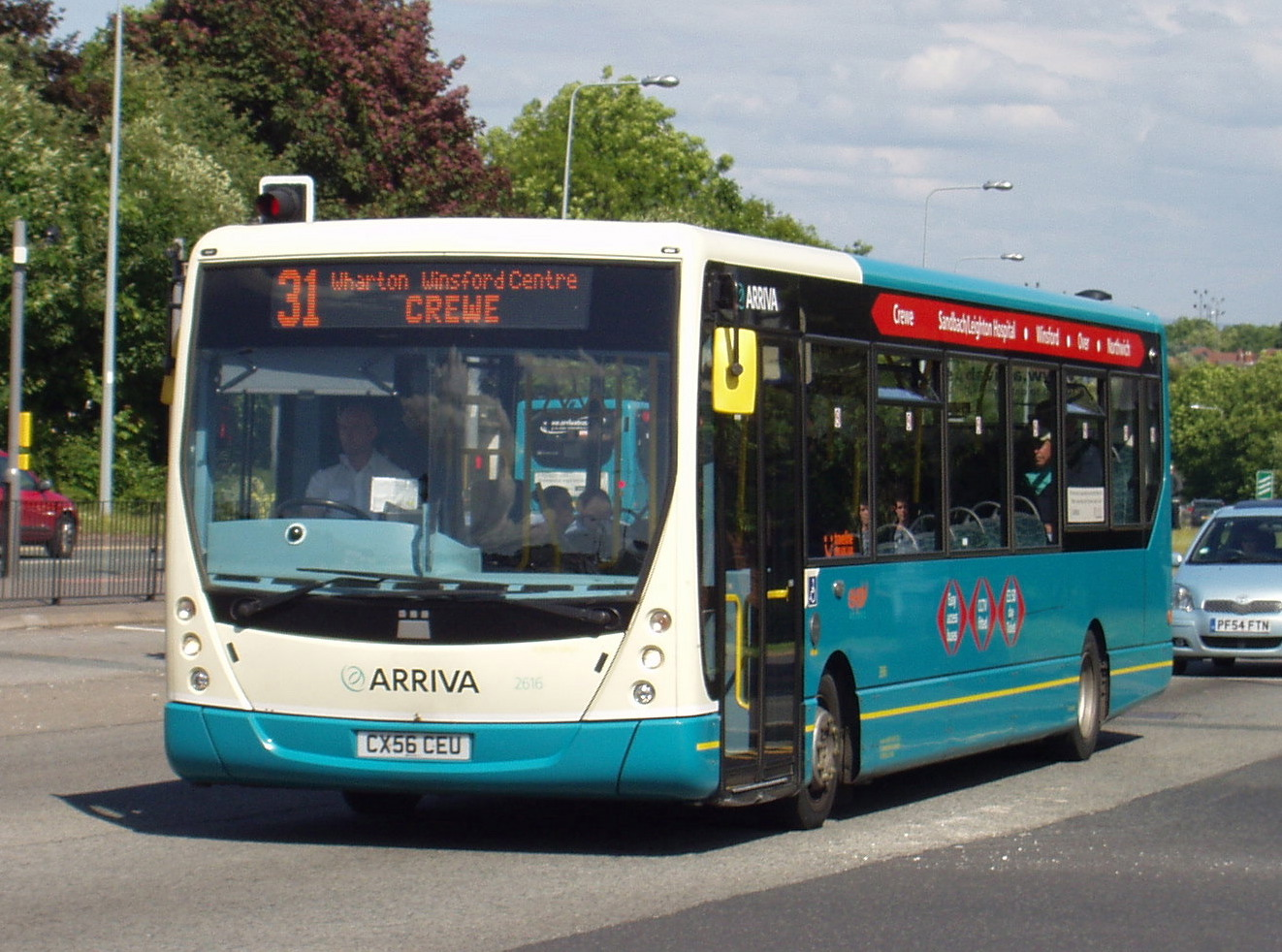 Arriva North West and Wales VDL SB120 with Plaxton Centro bodywork, fleet number 2616 in Winsford, Cheshire, England.